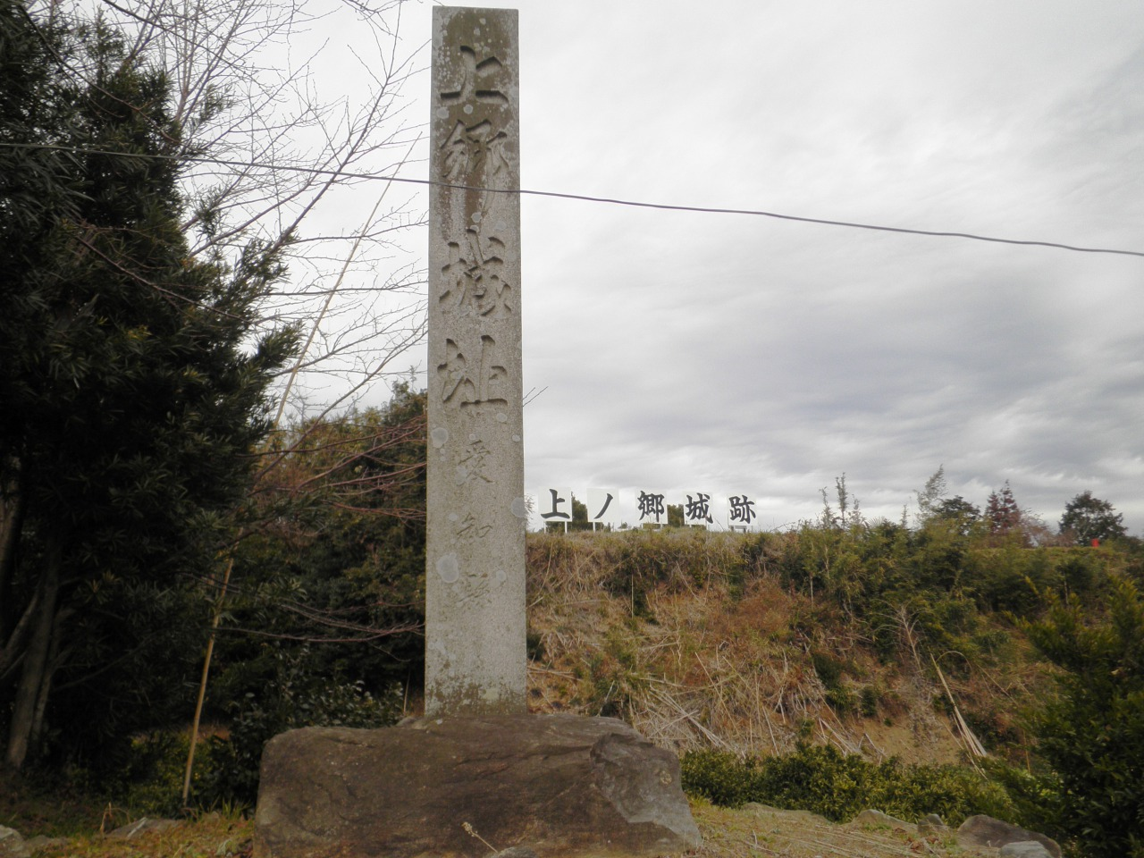 Site of Kaminogō Castle in Gamagōri, Aichi.